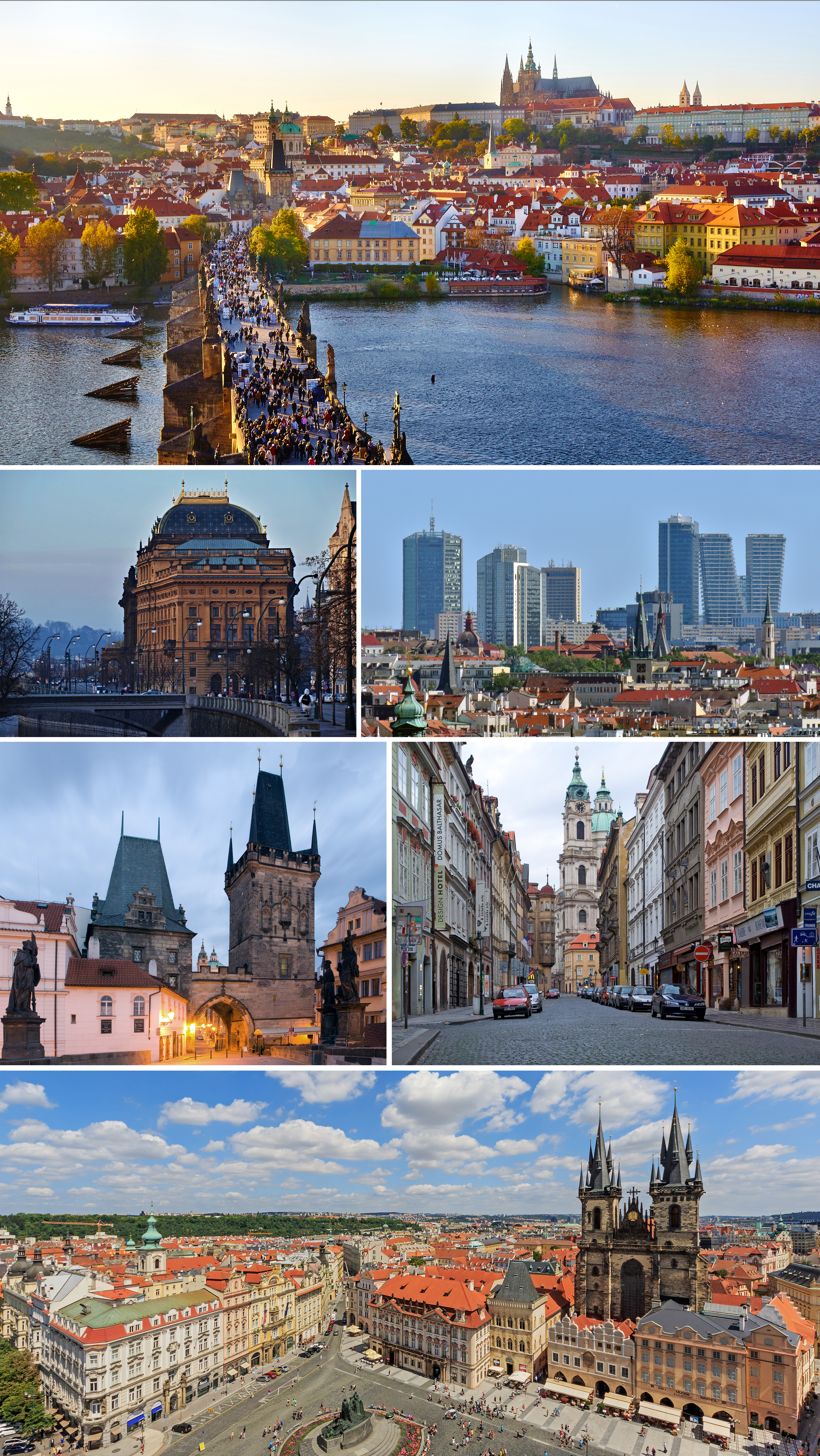 Collage of images of Prague, Czech Republic. Clockwise from top: (1) panorama with Prague Castle, Malá Strana and Charles Bridge; (2) Pankrác district with high-rise buildings; (3) street view in Malá Strana; (4) Old Town Square panorama; (5) gatehouse tower of the Charles Bridge; (6) National Theatre